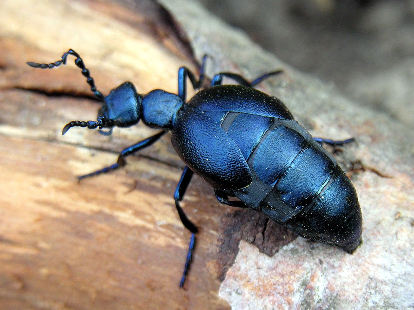 Violet oil beetle (Meloe violaceus)